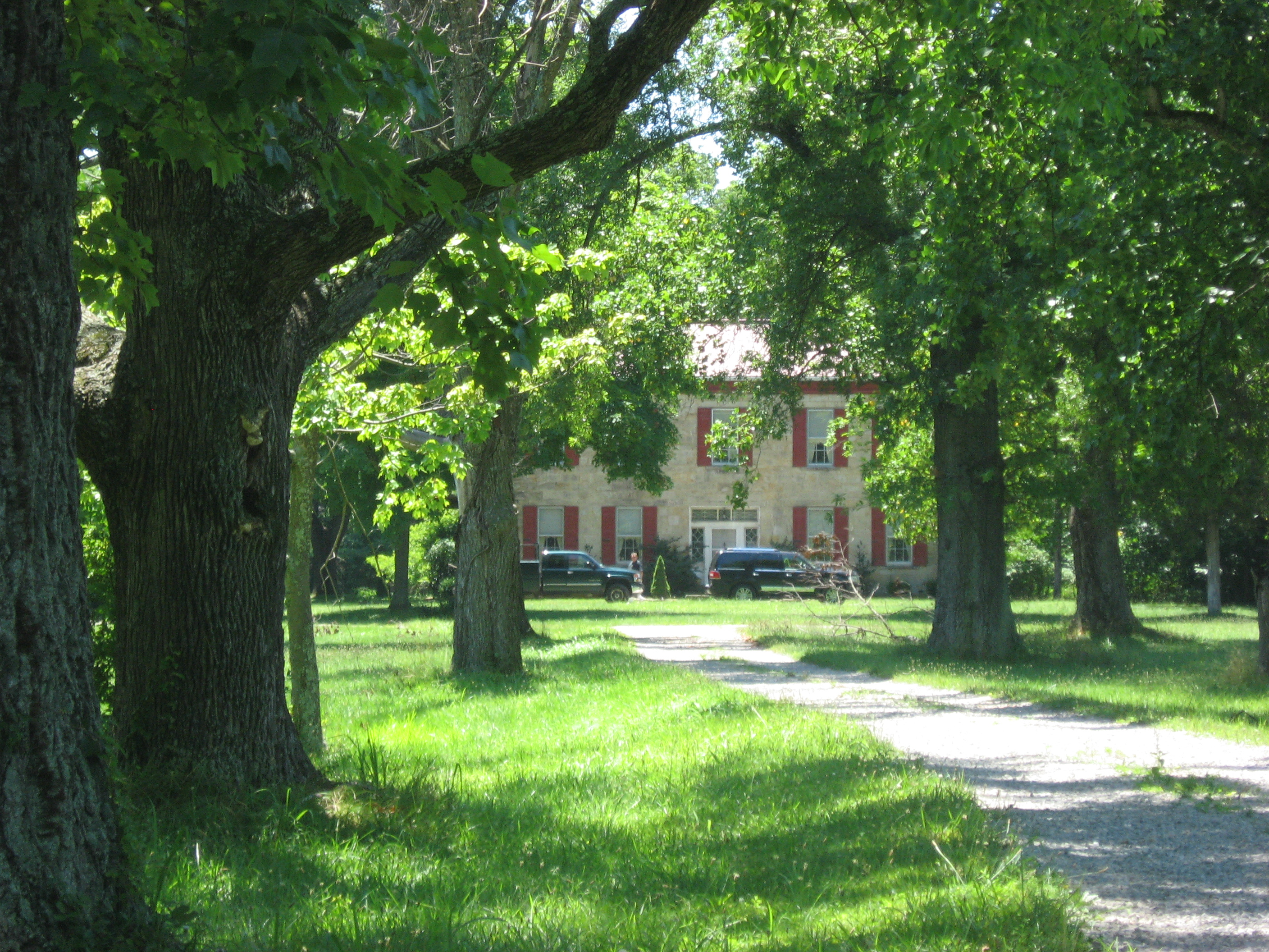 Front of Oak Hill, located off Dun Road in North Fork Village, Ohio, United States. Built in 1838, it is listed on the National Register of Historic Places.